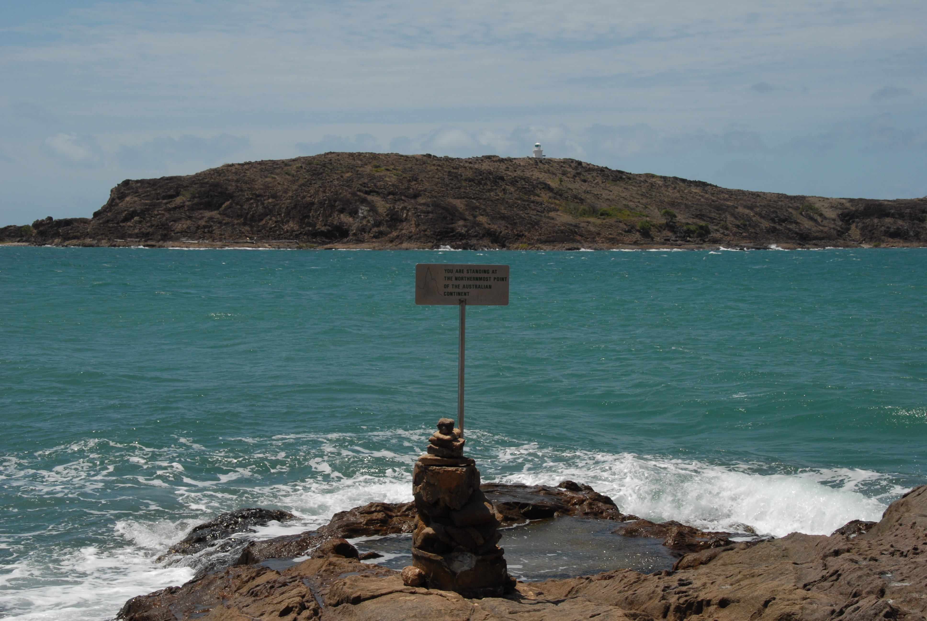 Looking at Eborac Island from Cape York. Cape York is the northern most point of the Australian Mainland.